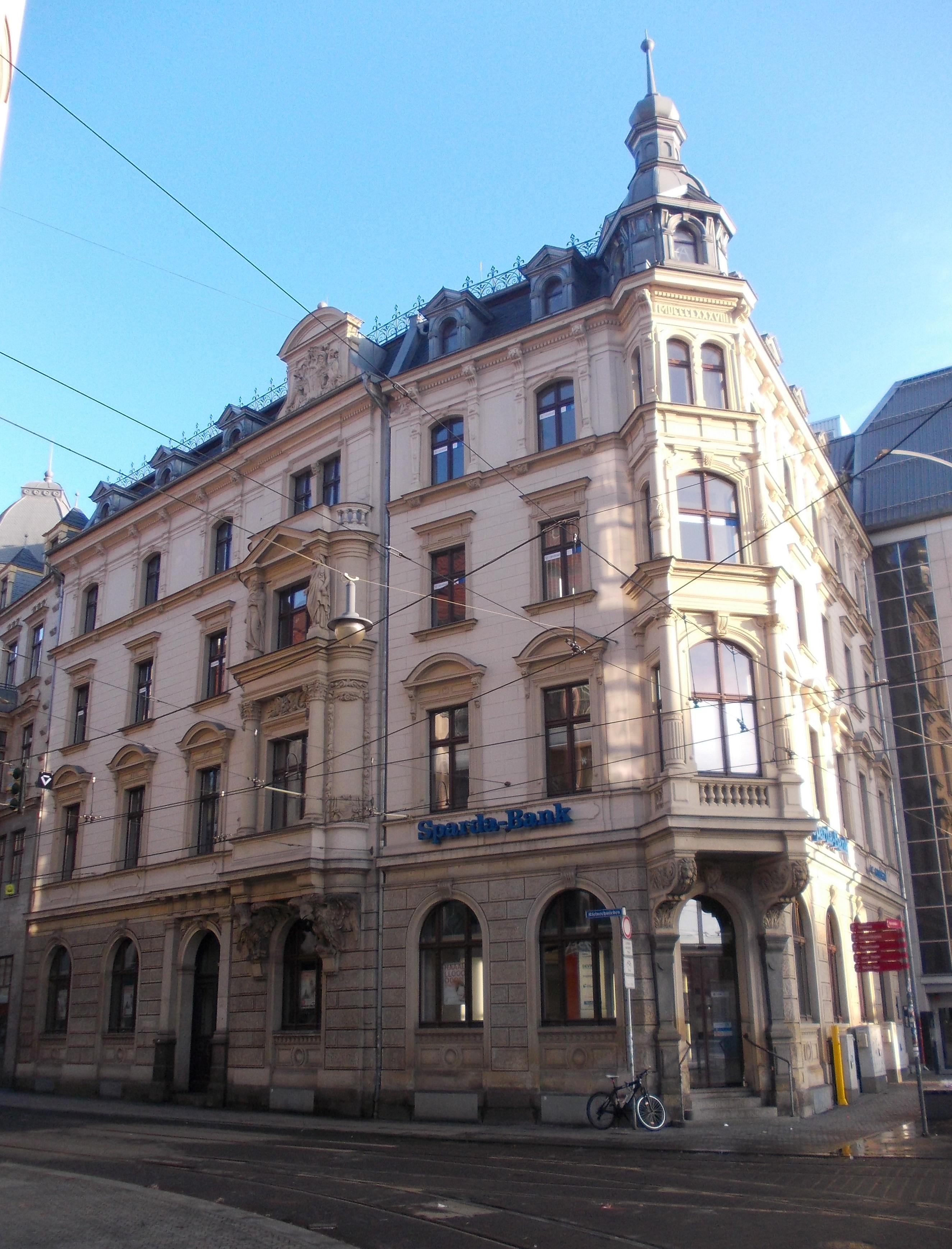 No. 19, Marktplatz (market square) in Halle (Saale), Saxony-Anhalt